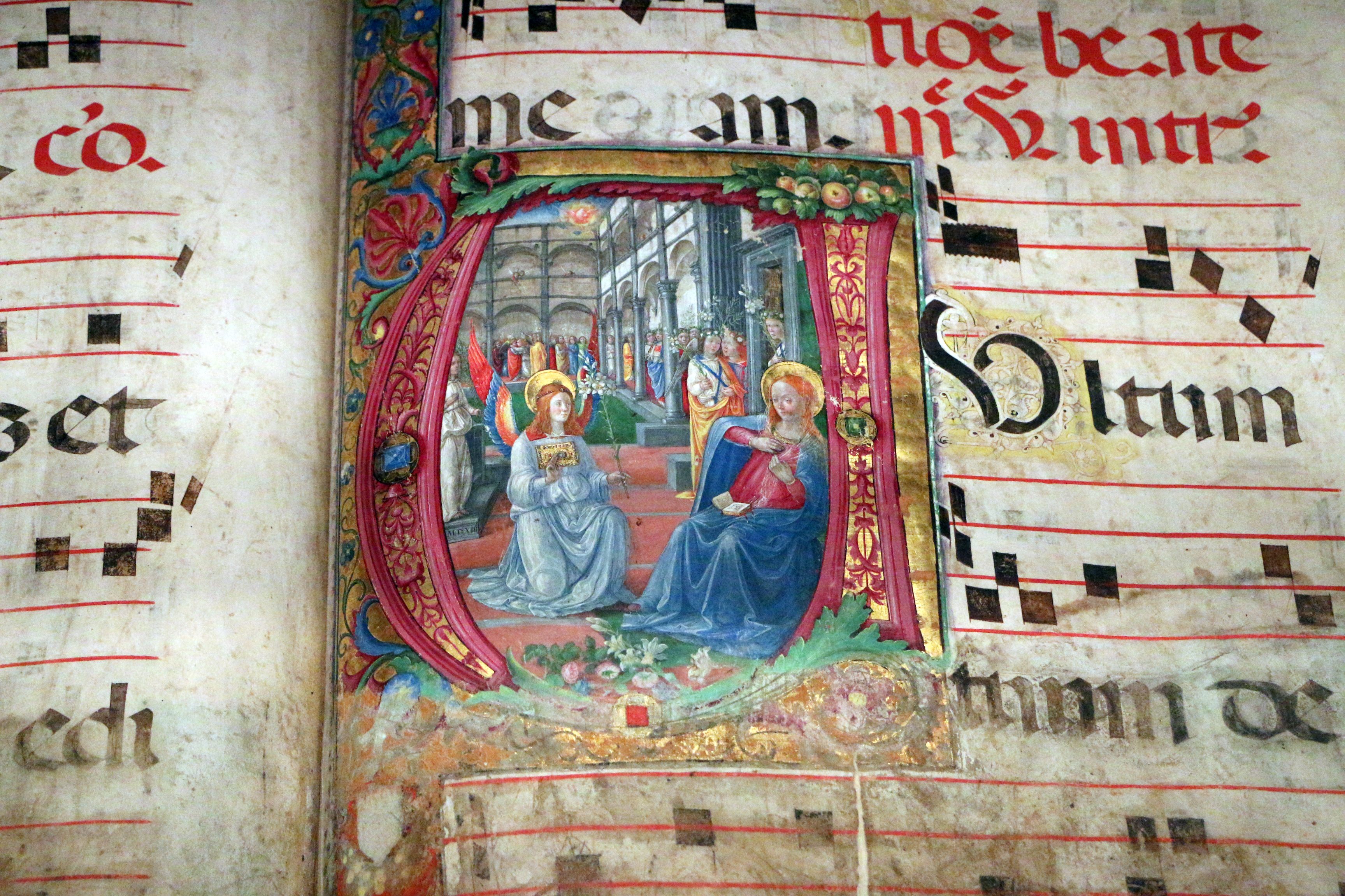 Museo dell'Opera del Duomo (Florence)